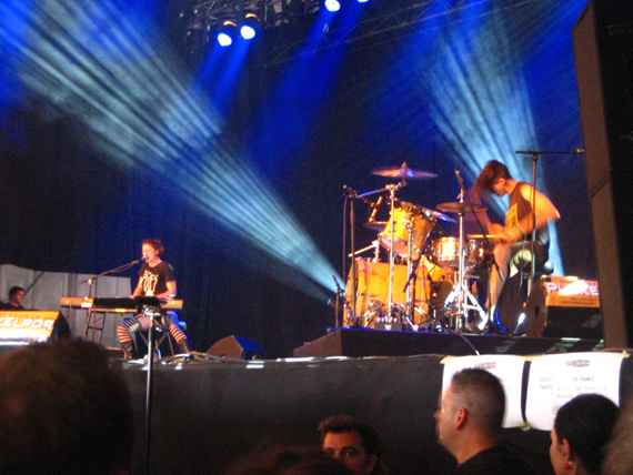 The Dresden Dolls at Pukkelpop 2006